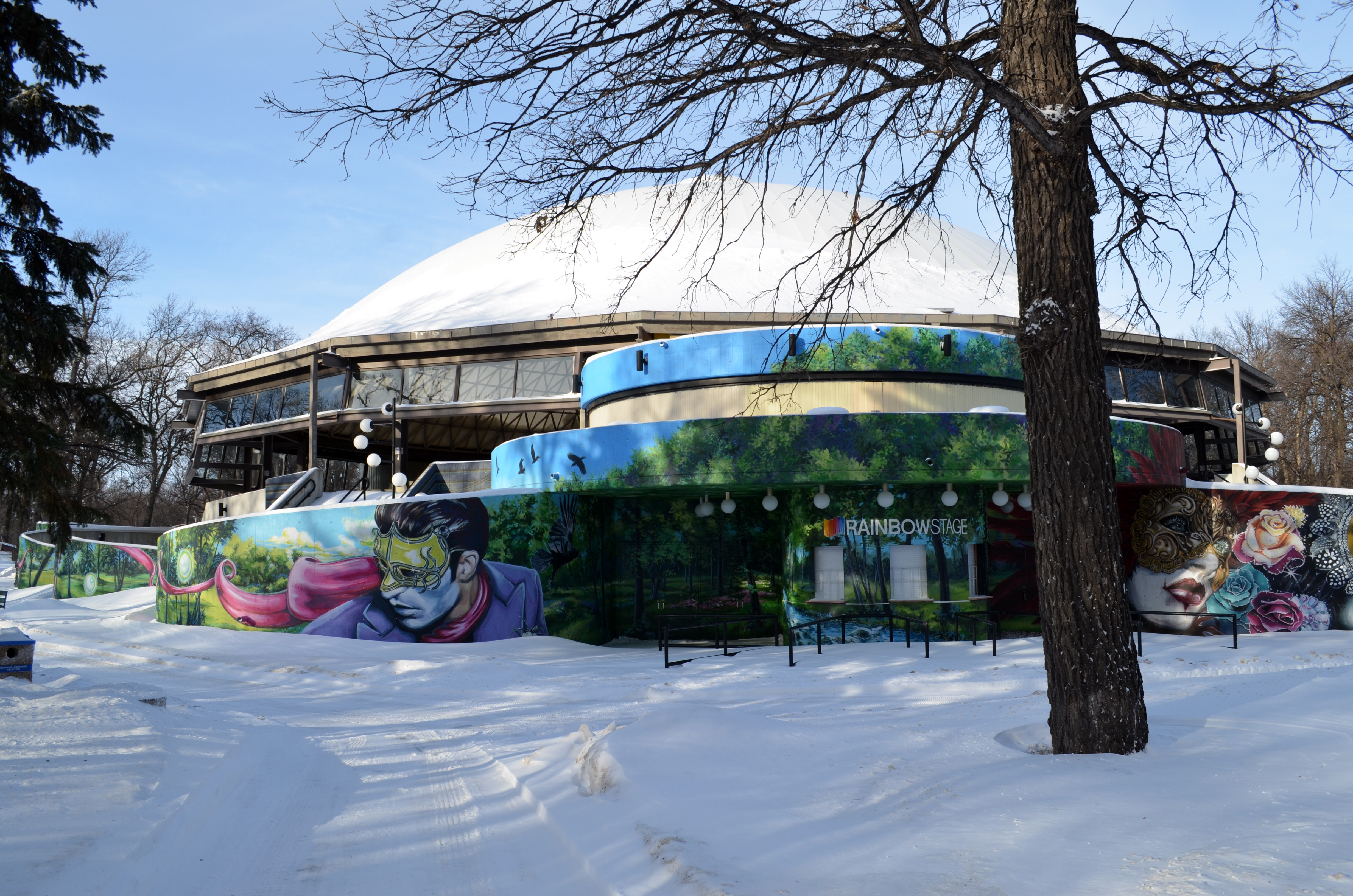 Rainbow Stage in Kildonan Park, Winnipeg Manitoba